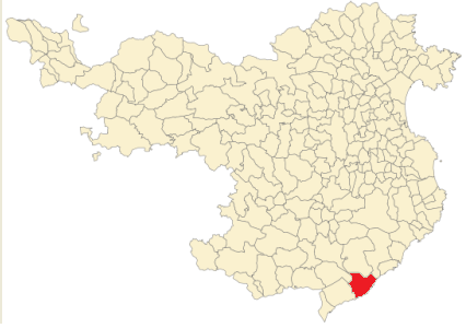 Tossa de mar